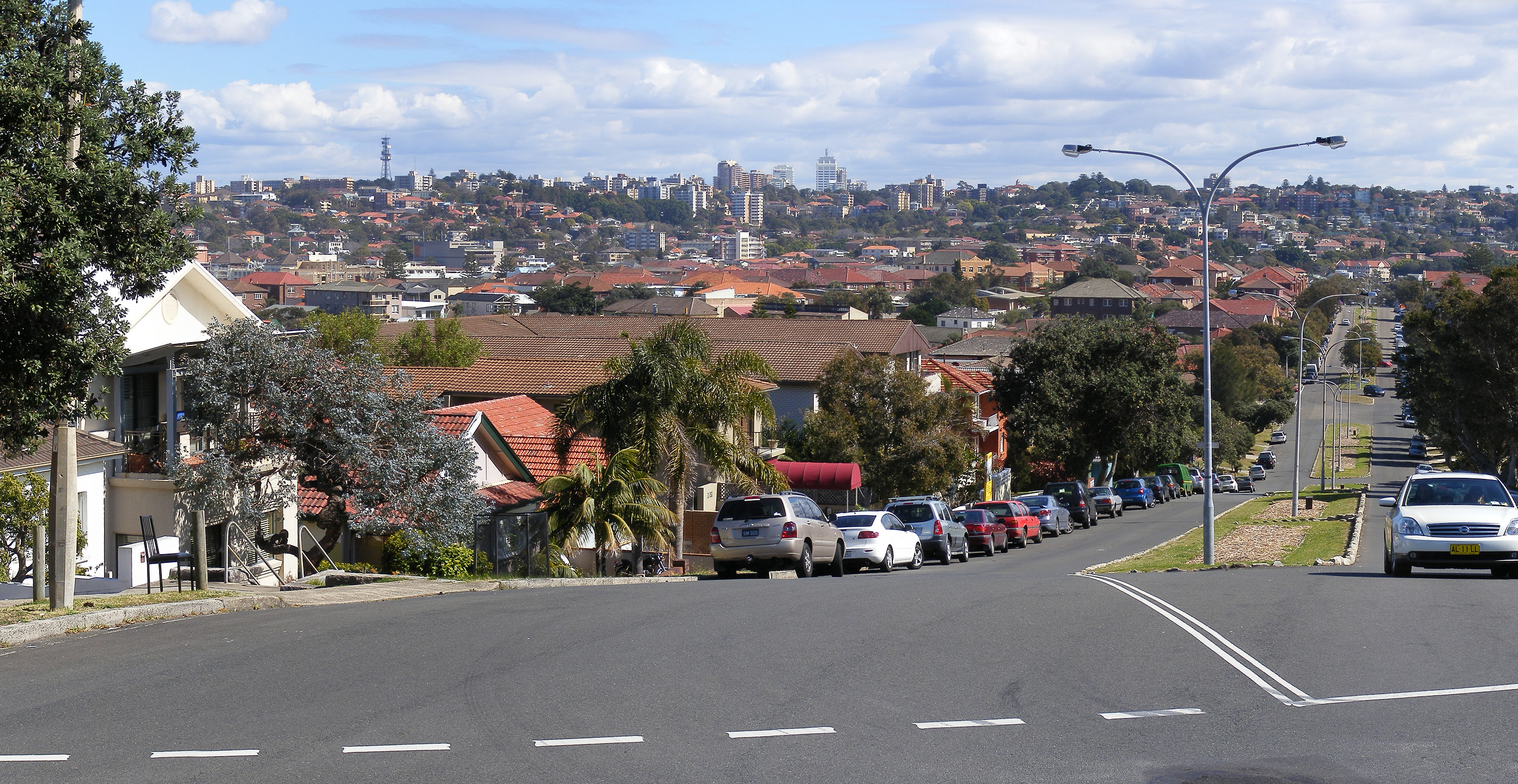 A street in North Bondi, New South Wales